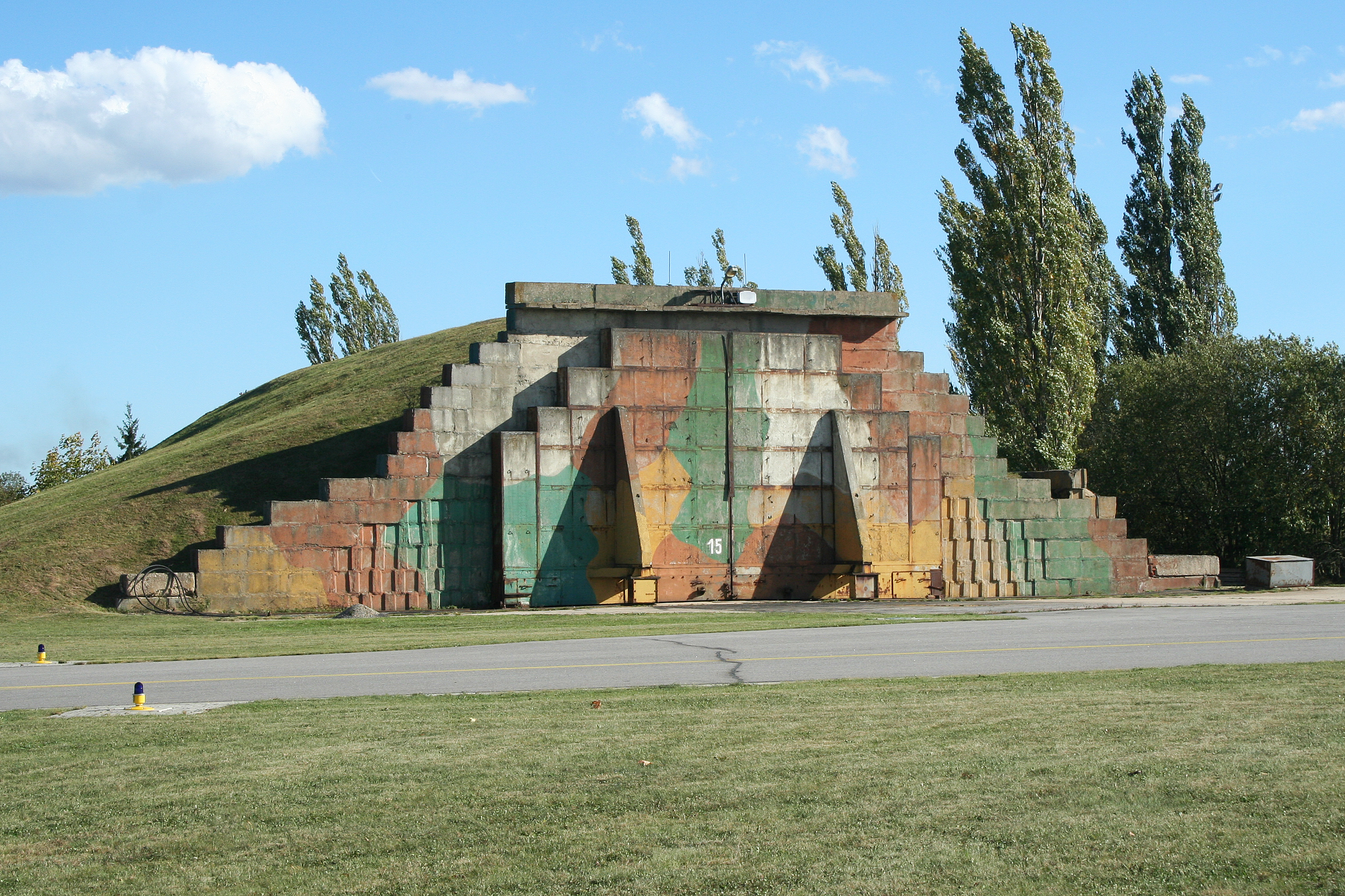 Not used for aircraft any more, a Hind would have to be de-rigged to fit in here. Namest Open Day, Czech Republic. 06-10-2012